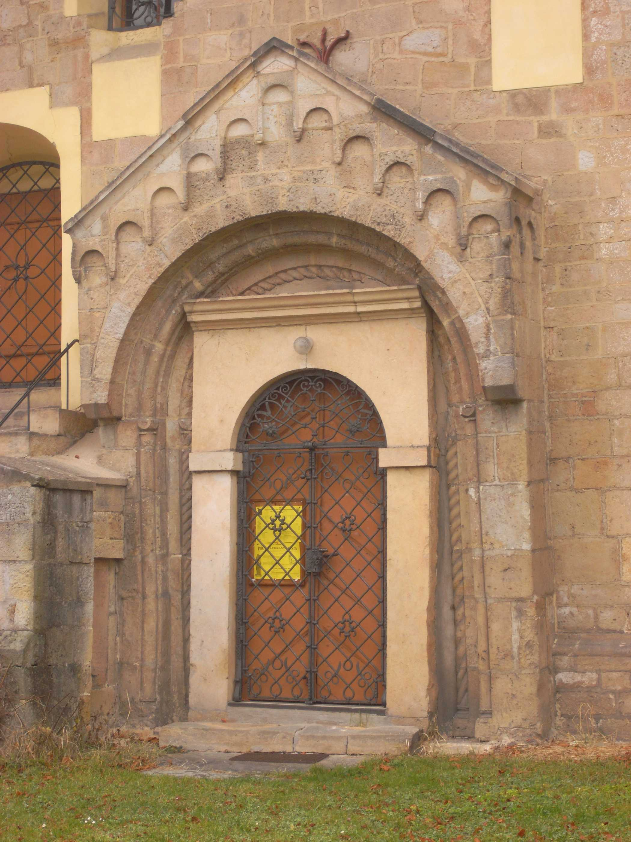 portal church St. Bartholomew of Lanžov (Czech Republic)